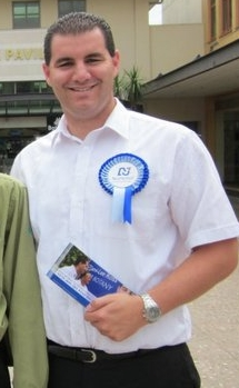 New Zealand Politician Jami-Lee Ross wearing a National party Rosette